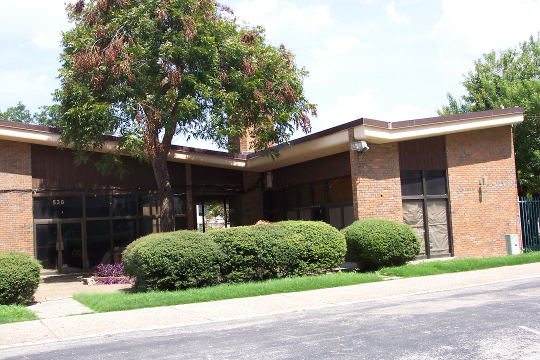 The Eastman Kodak Pavilion in Hemisfair Park as of 2010